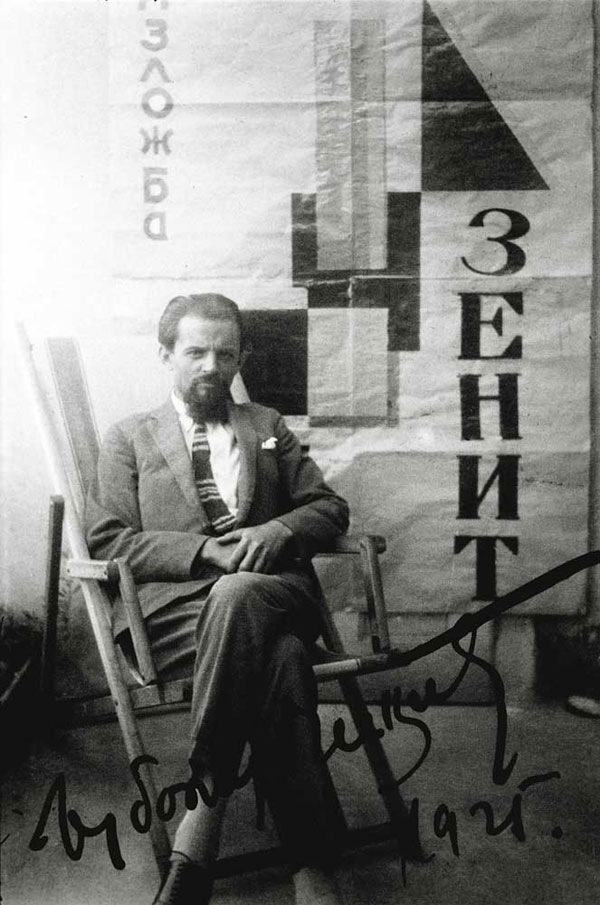 Portrait of Ljubomir Micić, founder of Zenitism.